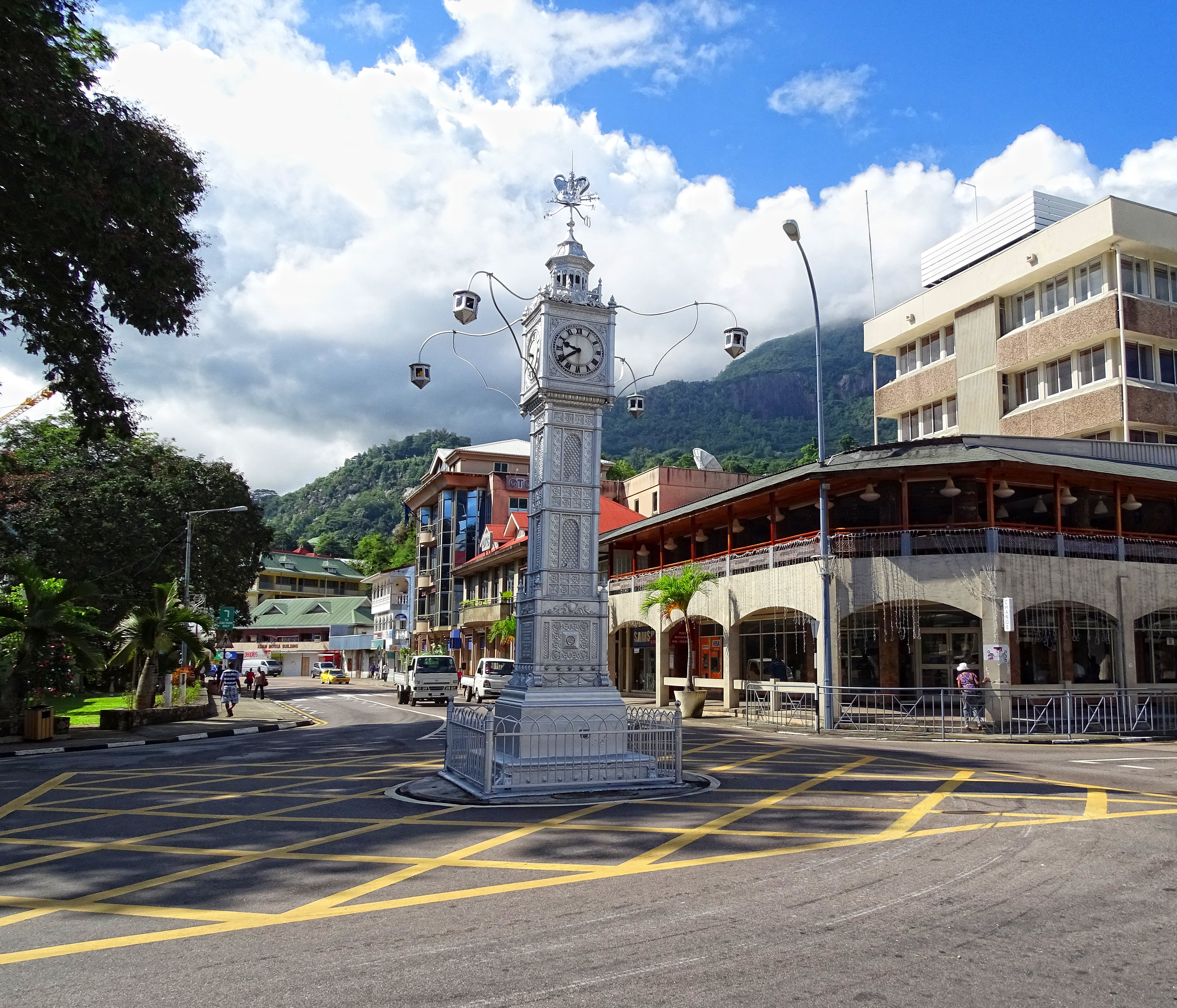 A clocktower in central Victoria that was erected in 1903 in honour of the deceased Queen Victoria who died two years previously. It's still functioning.